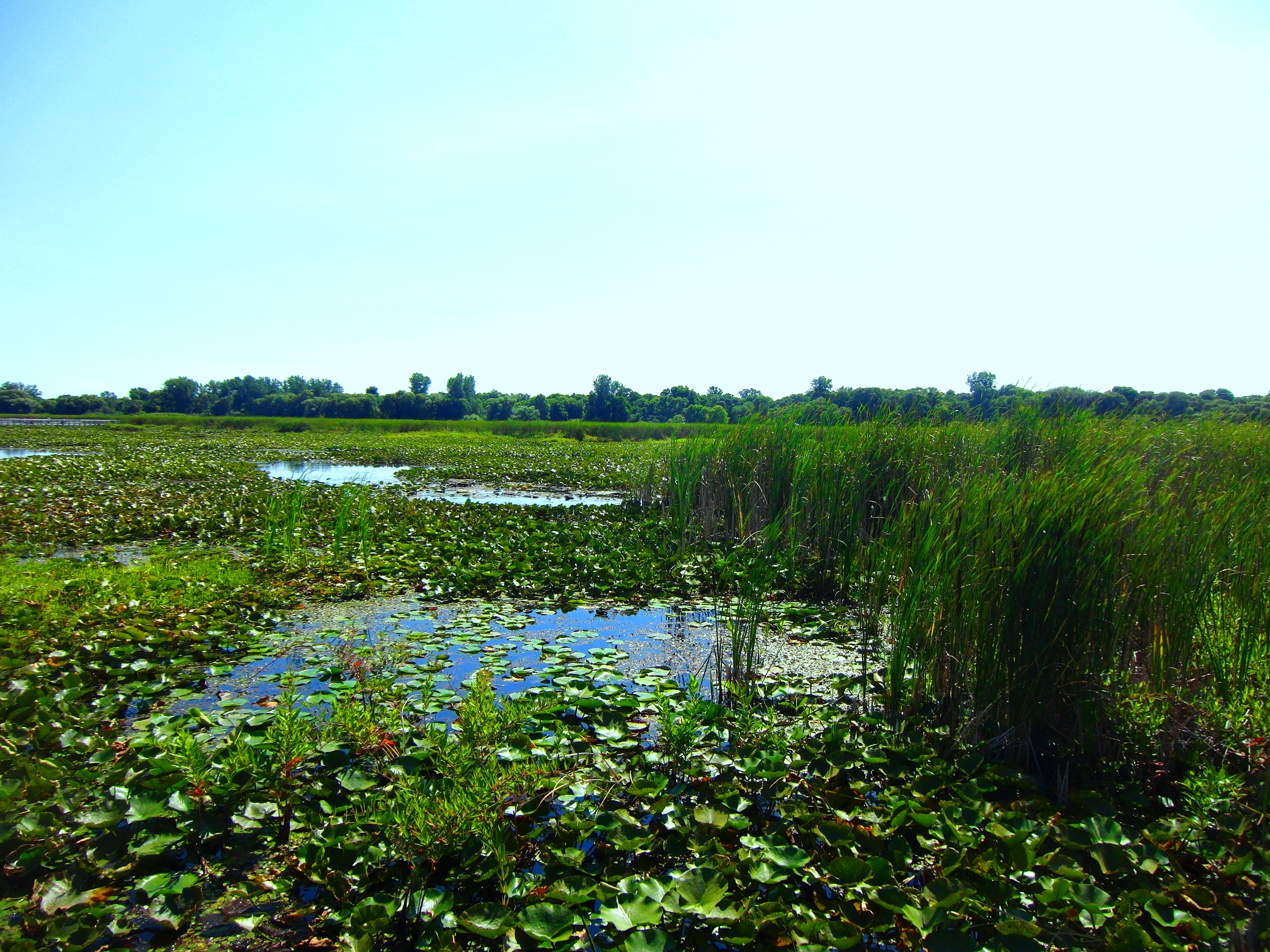 A view from the boardwalk onto the marsh at Point Pelee National Park, Ontario, Canada. Wikipedia: "The diversity of vegetation in the marsh is the highest along the edge of the marsh ponds and in the transitional zones between the terrestrial environments and the marsh. Four different vegetation communities dominate in the marsh."